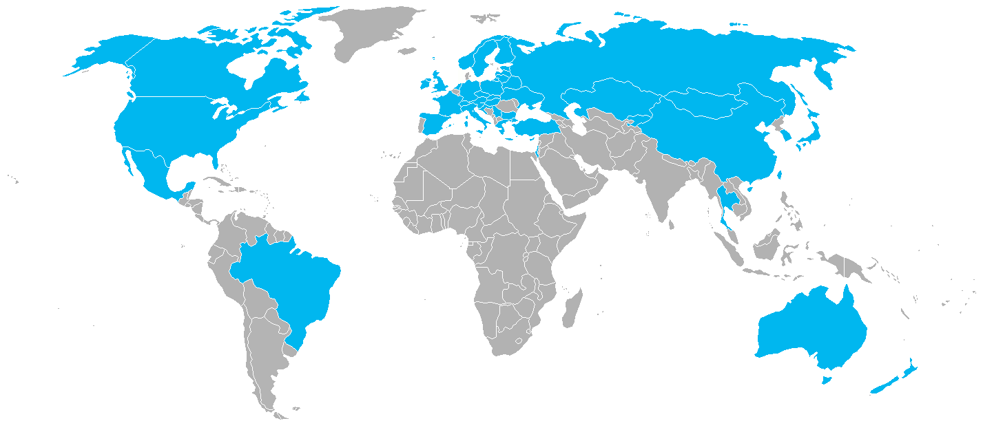 Countries at 2009 Winter Universiade